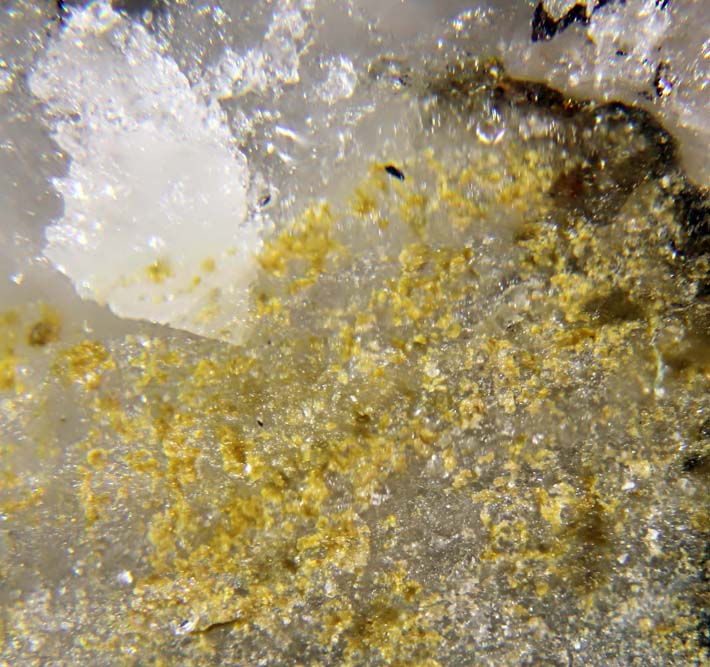 Yellow crystals of the very rare bismuth tellurate from an American locality: Hachite, Hidalgo Co., New Mexico, United States of America. Analyzed by Sid Williams.